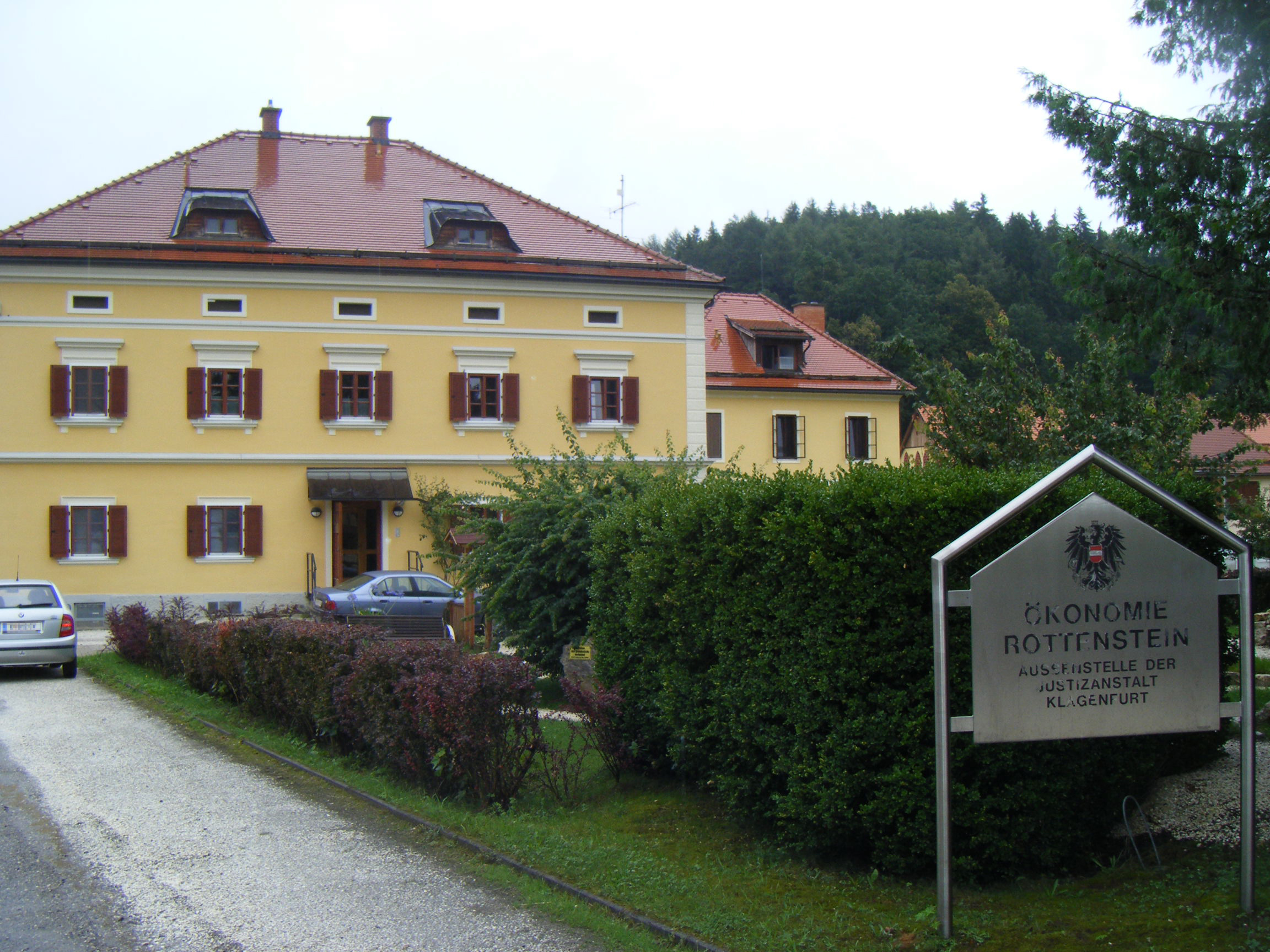 The Ökonomie Außenstelle Rottenstein is an outpost of the Justizanstalt Klagenfurt, a prison in the capital of carithia (Austria). It is situated in St. Georgen am Längsee.